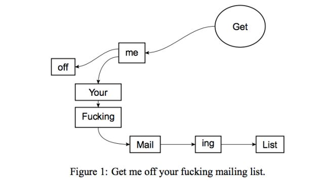 Figure 1 from sarcastic paper in International Journal of Advanced Computer Technology to demonstrate the article's nature: Mazières, David; Kohler, Eddie. "Get me off Your Fucking Mailing List".